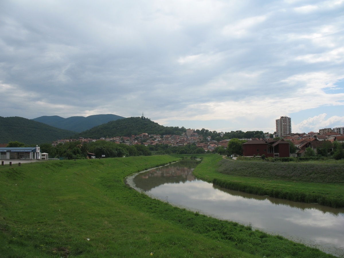 View on Hisar hill from bridge over Toplica, in Prokuplja, Serbia.